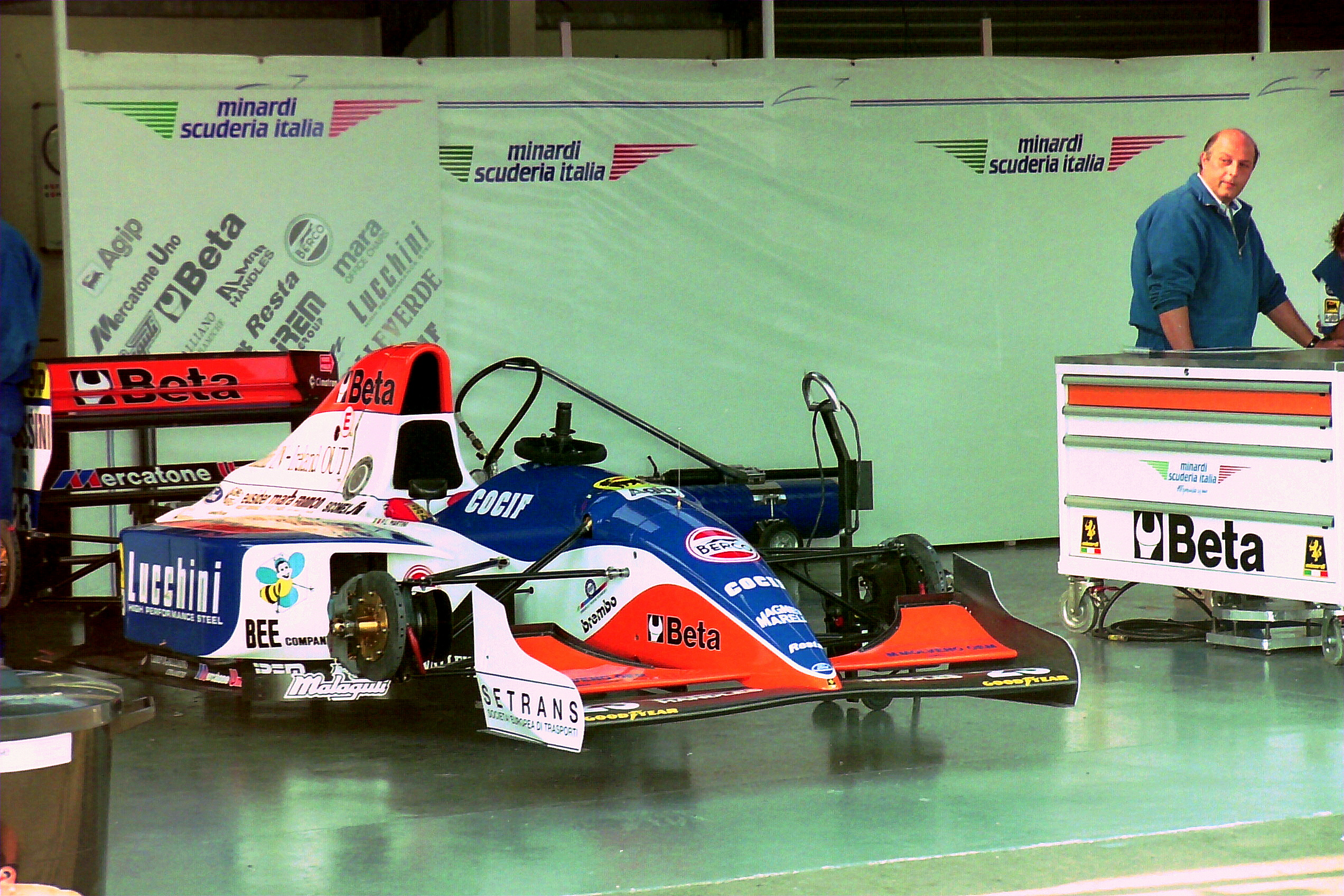 Minardi pits at the 1994 British Grand Prix